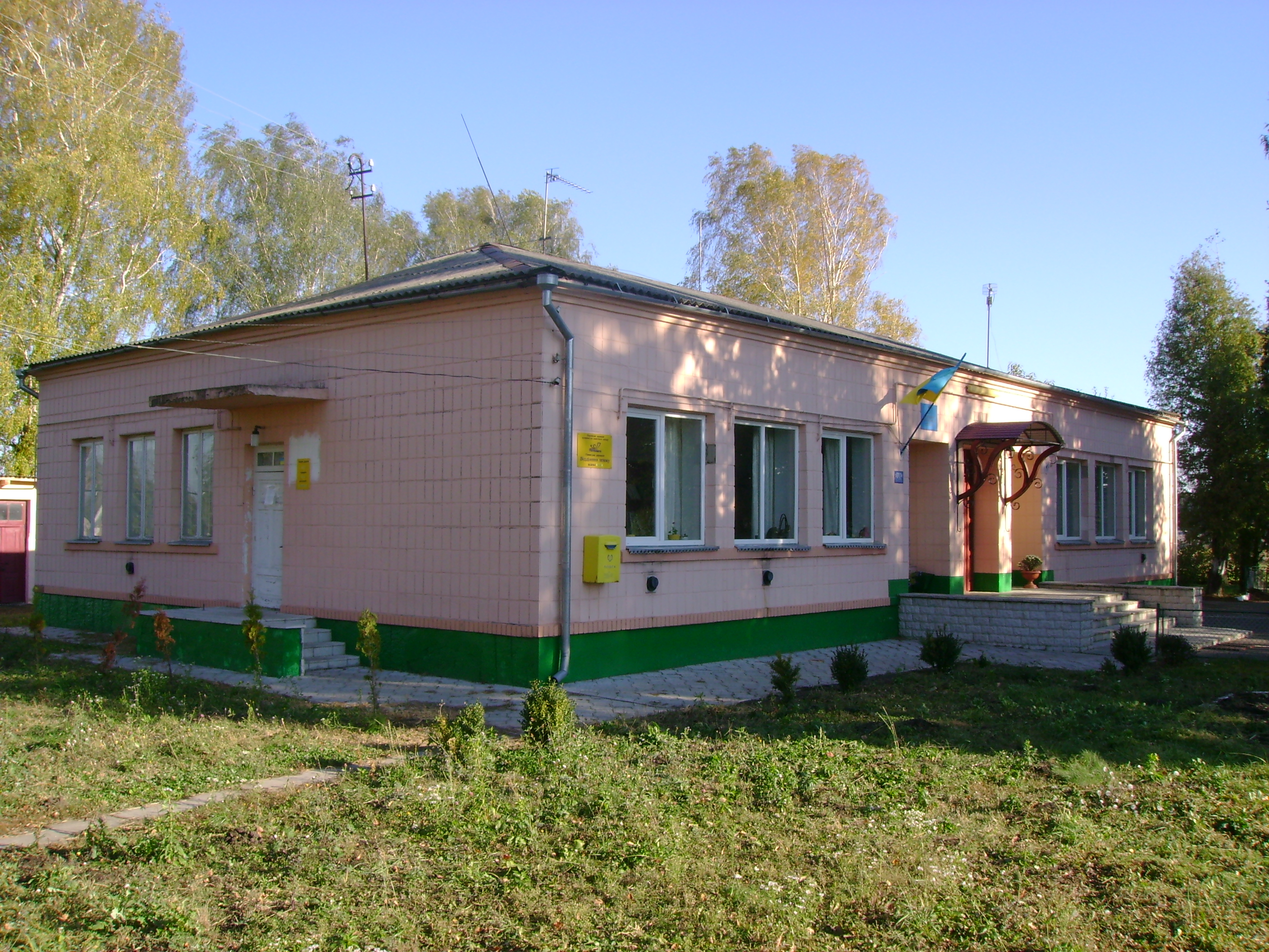 с.Рачин